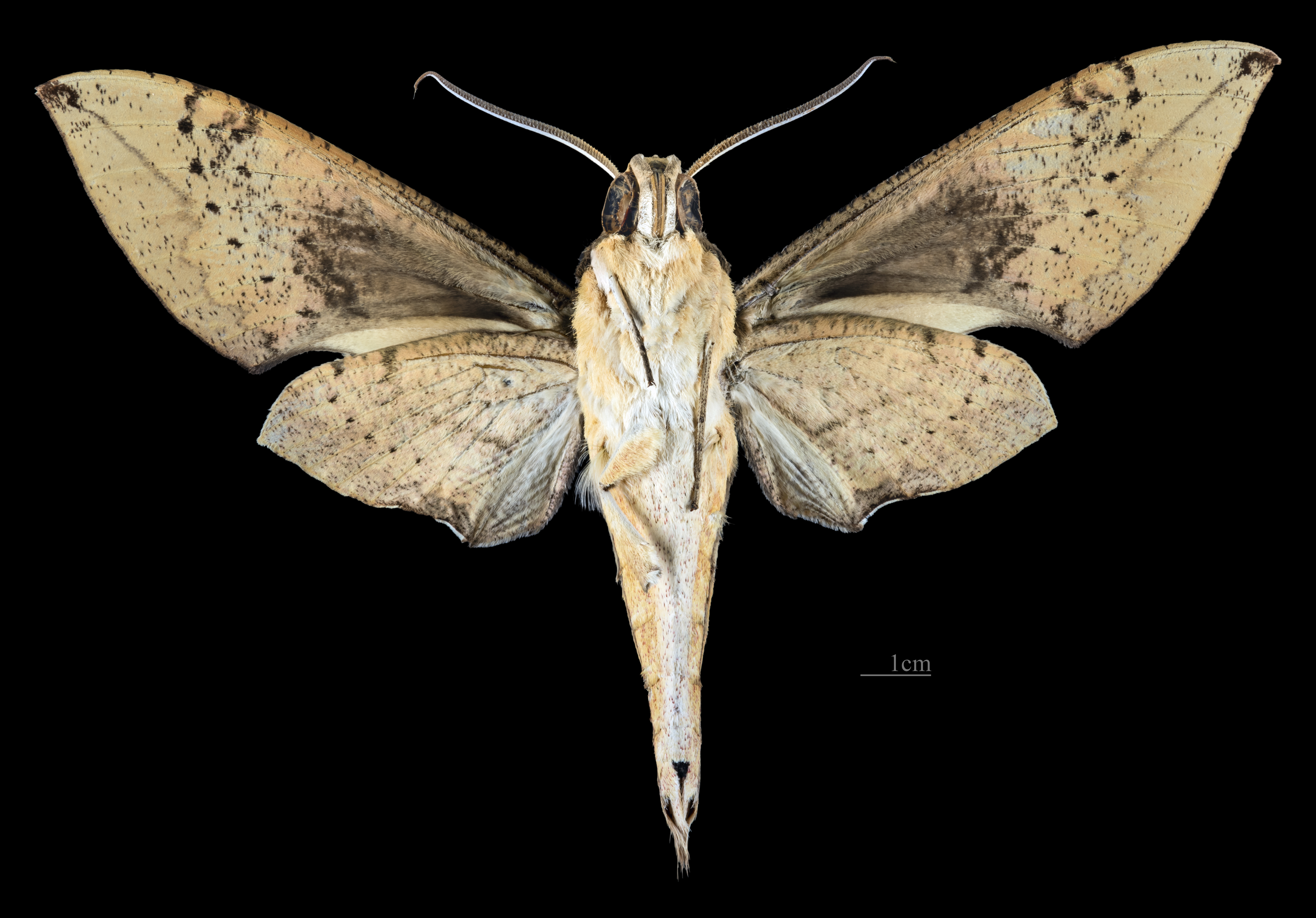 Cechenena aegrota - △ Ventral side Collection of the Mathematician Laurent Schwartz